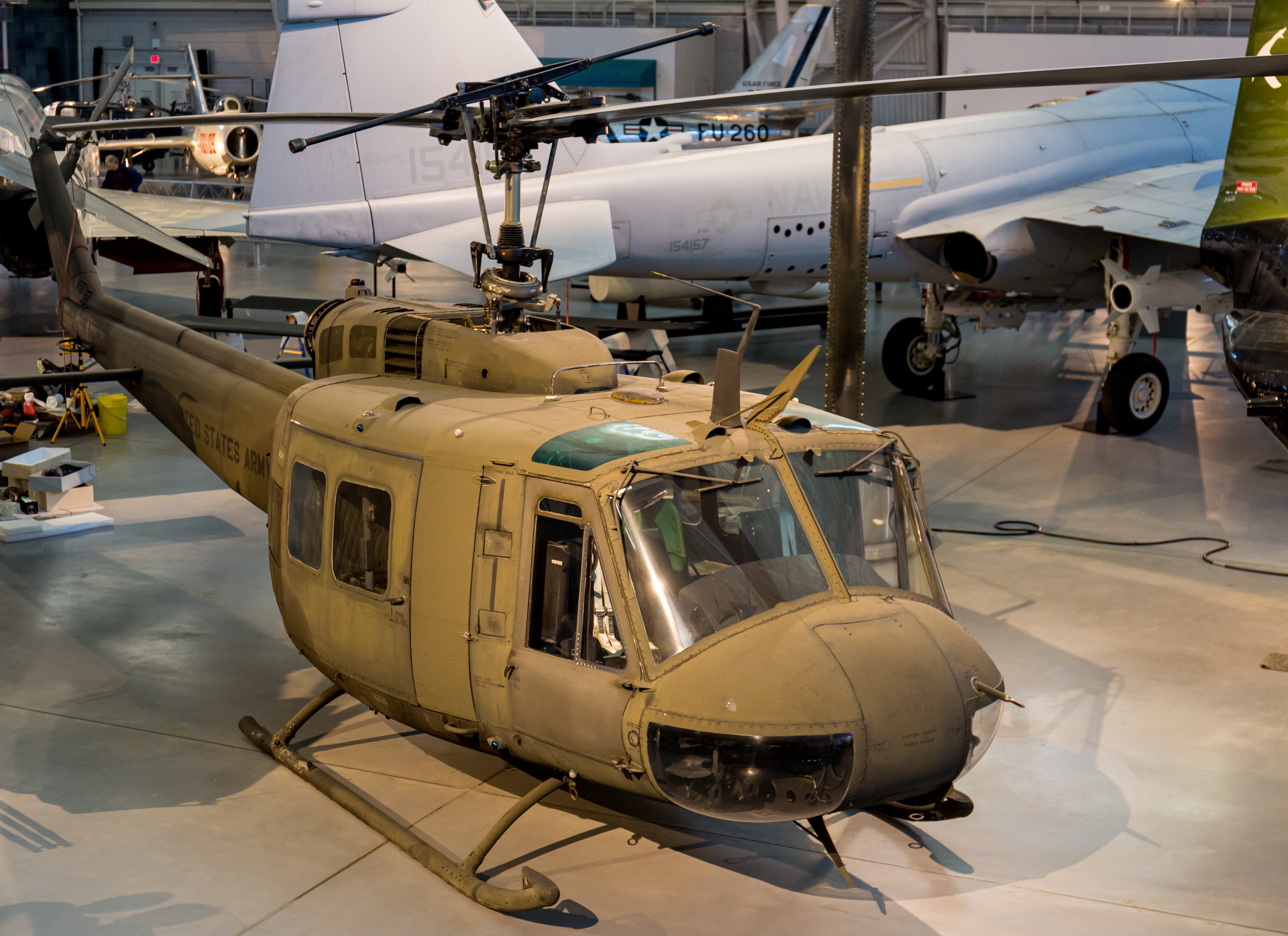 A Bell UH-1 Iroquois (65-10126) on display at the Smithsonian National Air and Space Museum Udvar-Hazy Center.